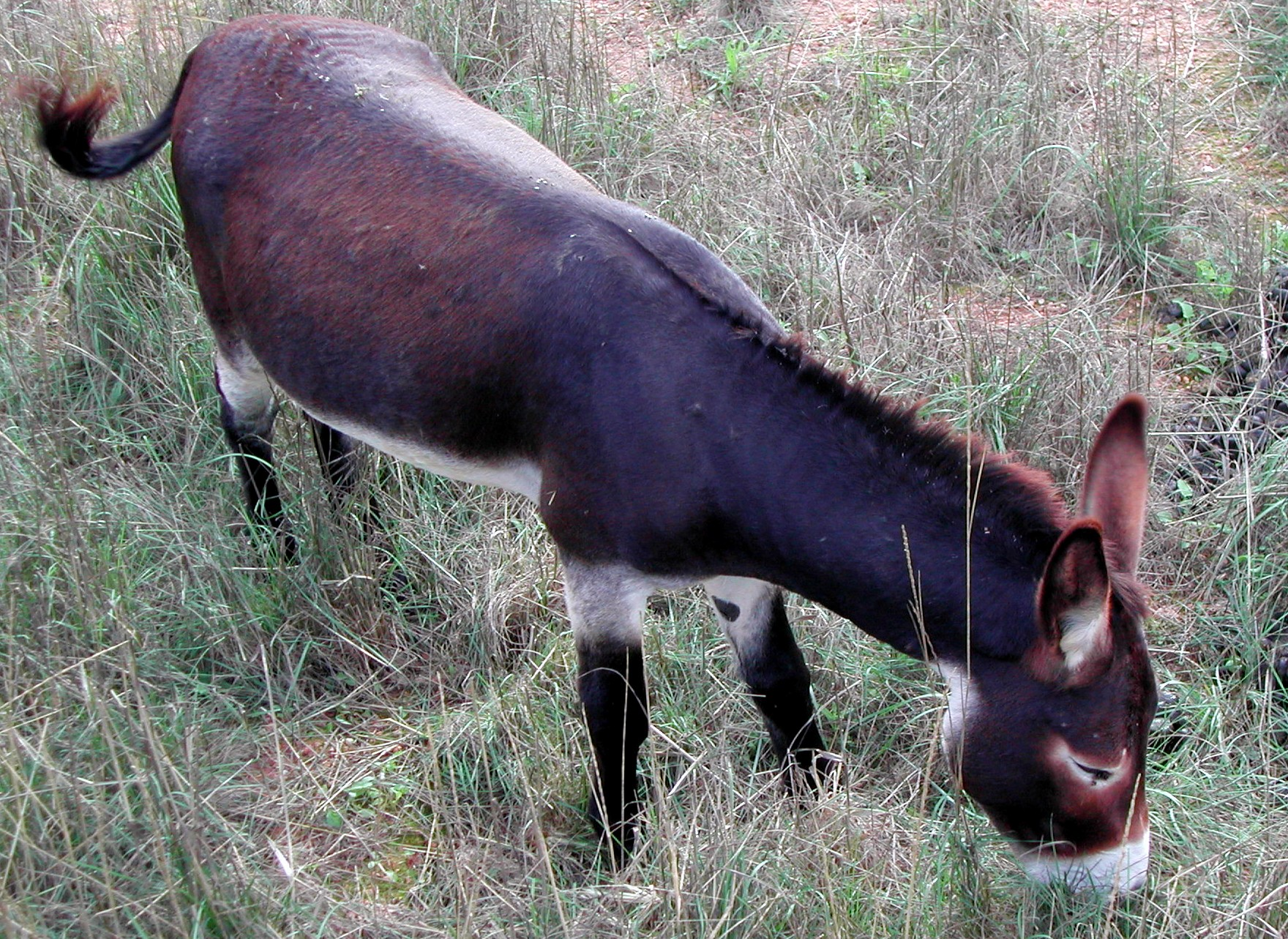 donkey grazing at Parc Bit ,Mallorca.